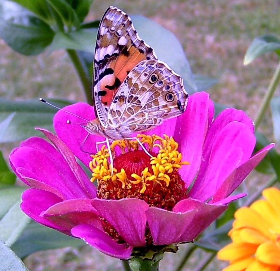 Vanessa cardui, Frankfurt am Main, Germany